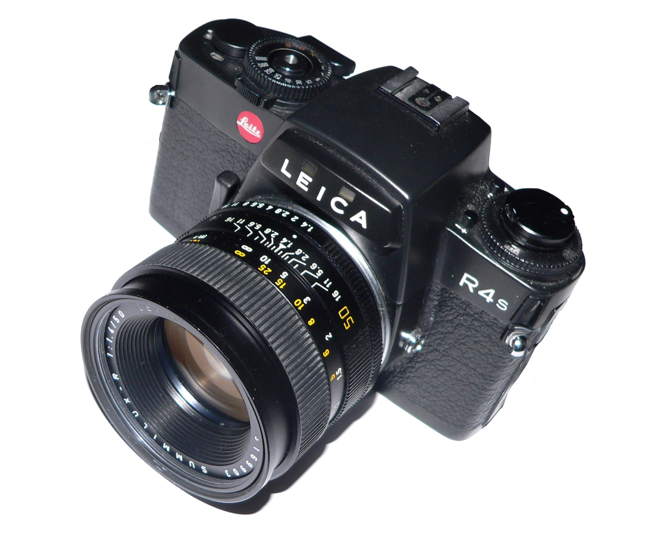 Leica R4s camera